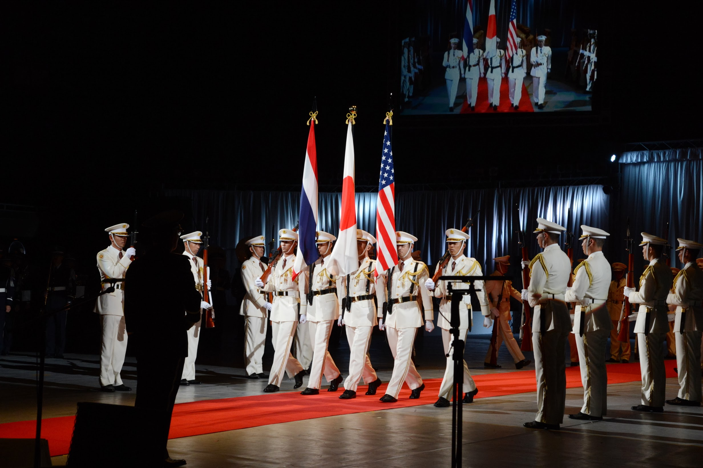 Title NOH_3283.JPG Album 平成25年度自衛隊音楽まつり Photographs by the Japan Ground Self-Defense Force